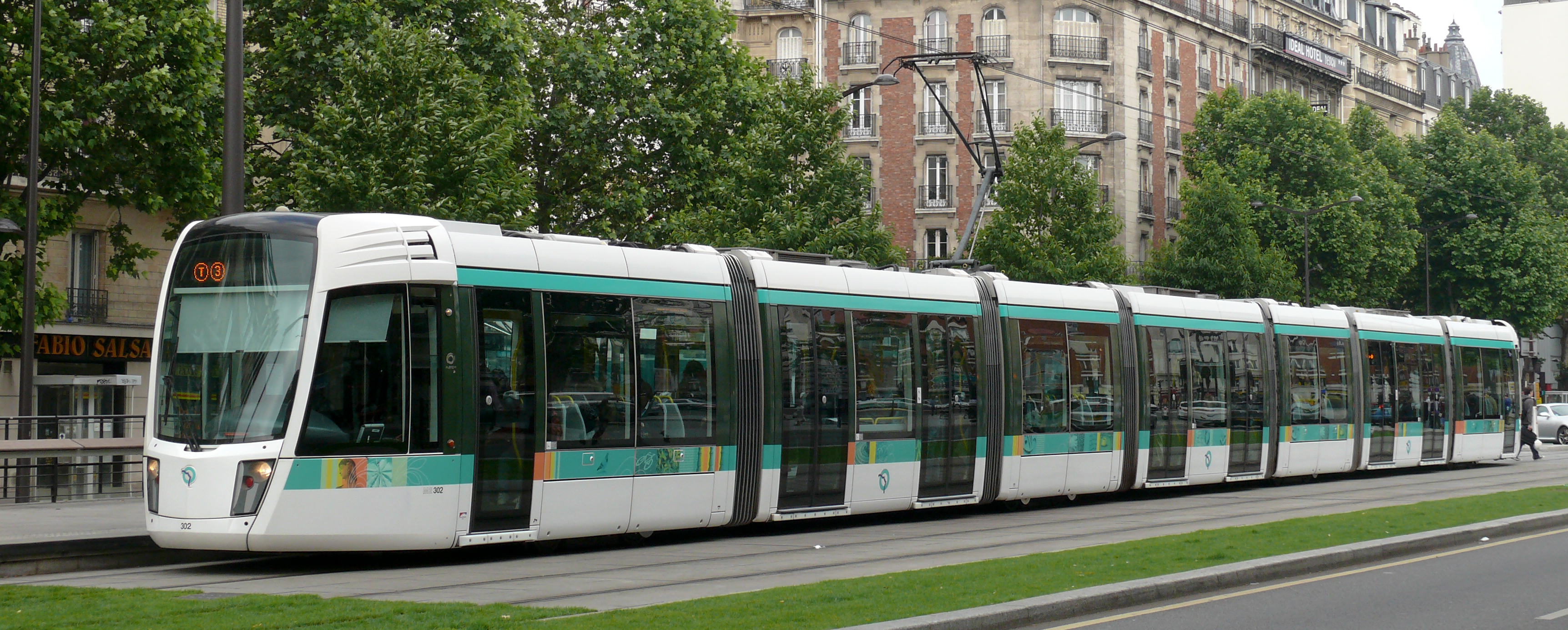 Citadis Alstom streetcar on Paris line T3.